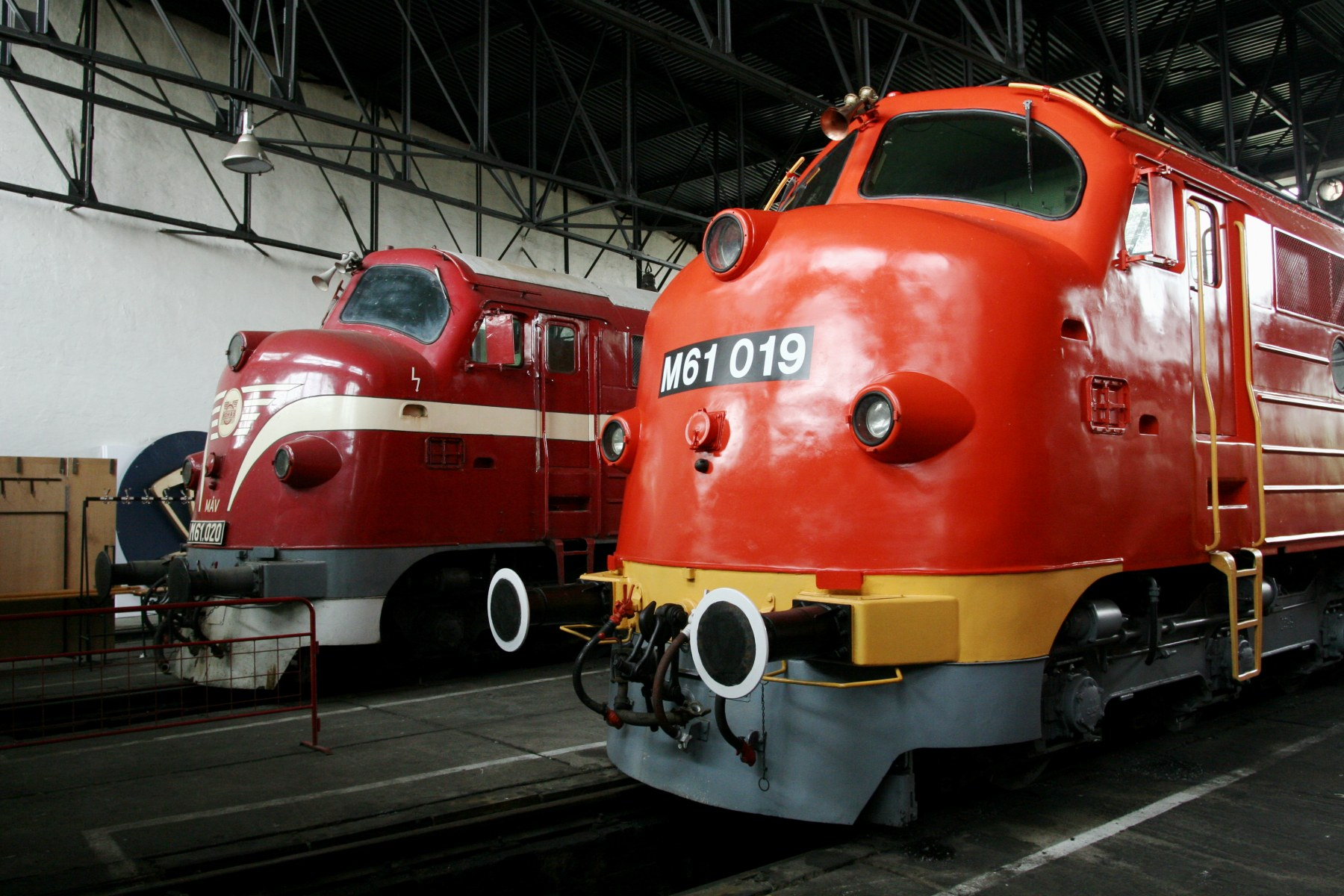 Hungarian State Railways MAV M61.020 and 019 in Budapest Railway Museum "Füsti", representing both different liveries of this class